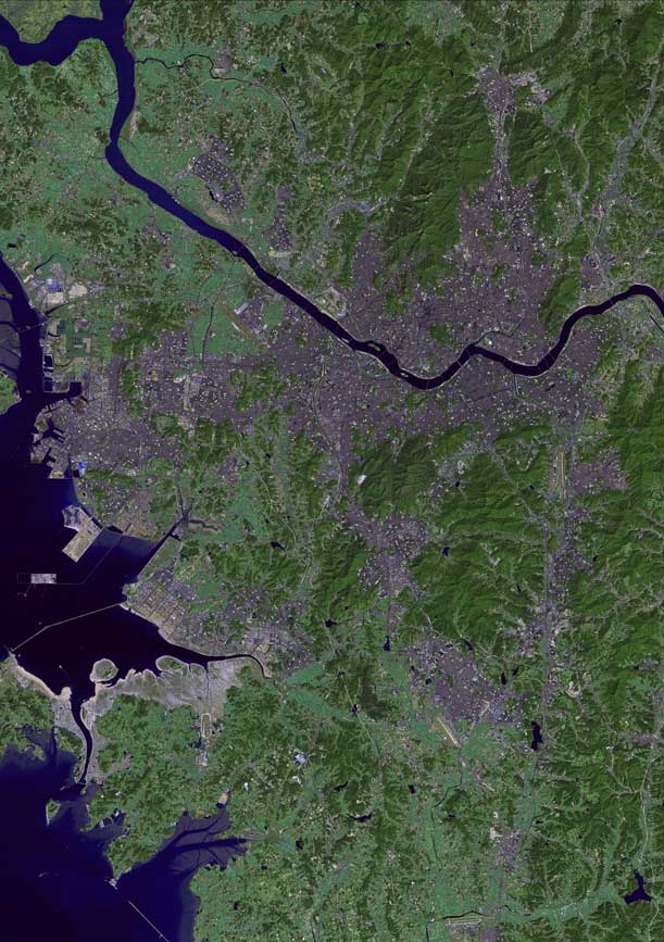 The raw satellite imagery shown in these images was obtain from NASA and/or the US Geological Survey. Post-processing and production by